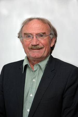 Lothar Schnitzler (2019).